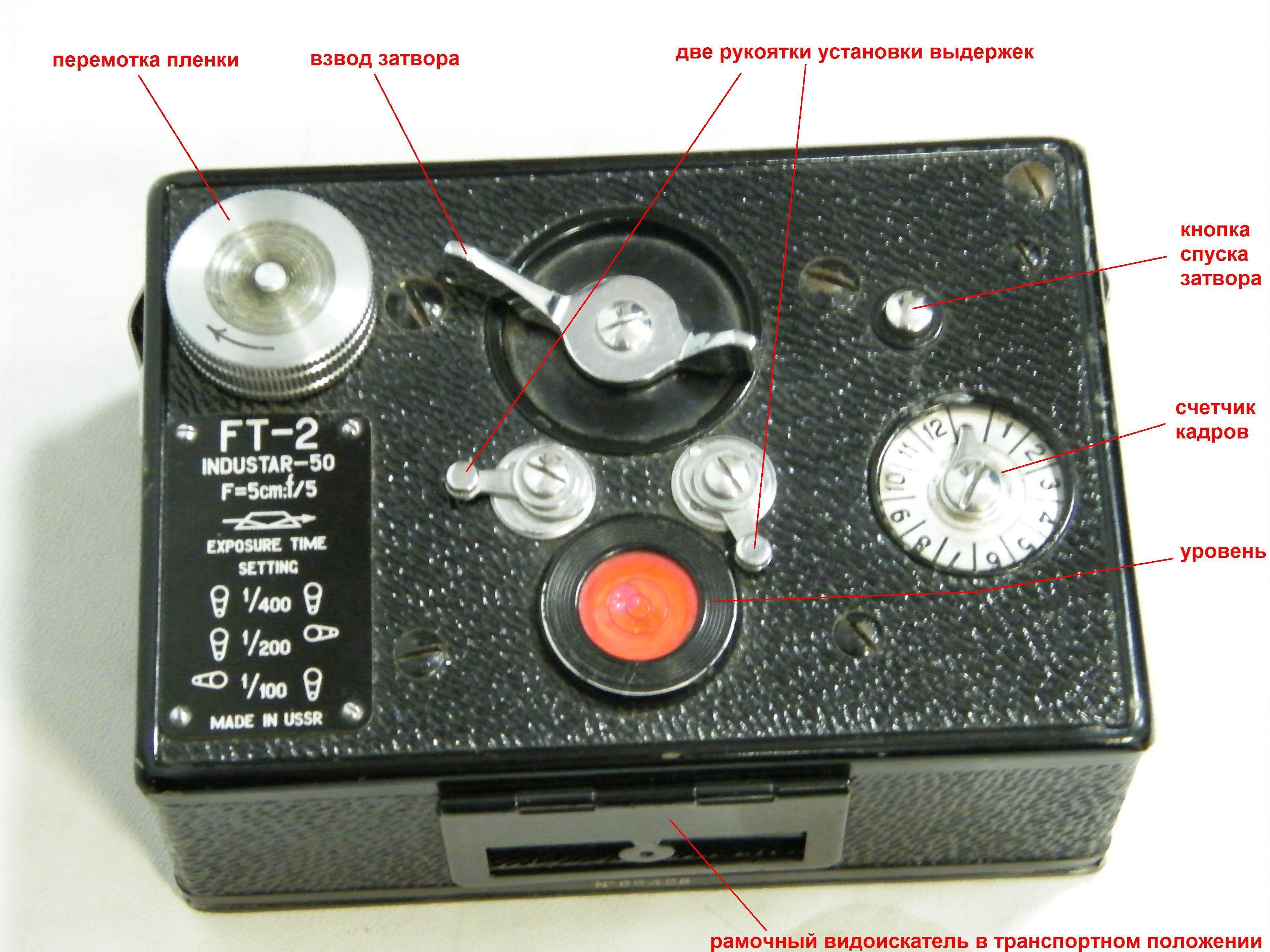 FT-2 Soviet panoramic camera from collection Evgeniy Okolov